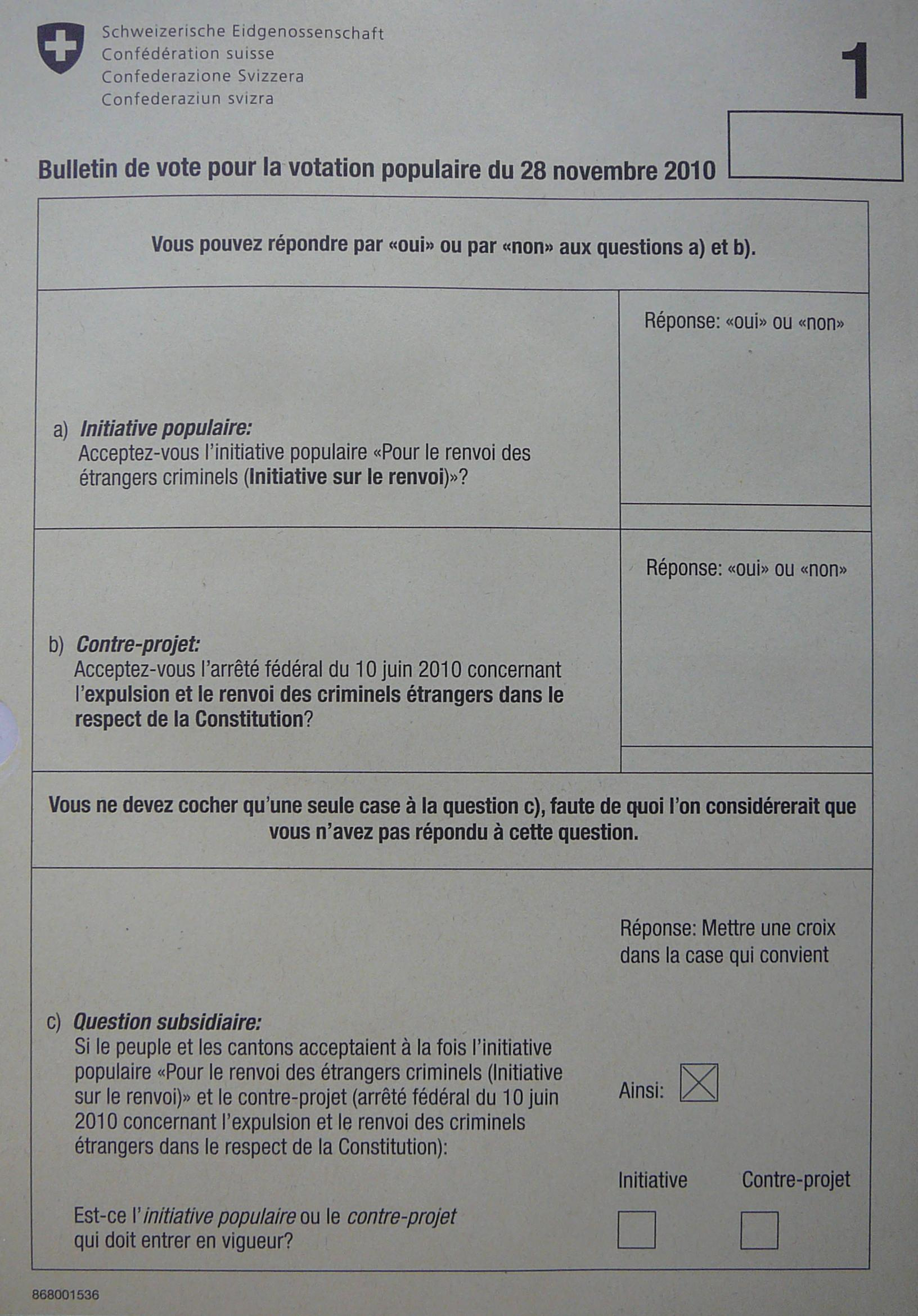 Ballot for the 28 November 2010 Swiss votation